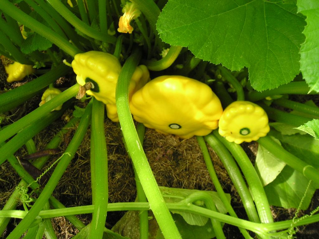 Cucurbita pepo 'Scallop' group, plant with fruits.